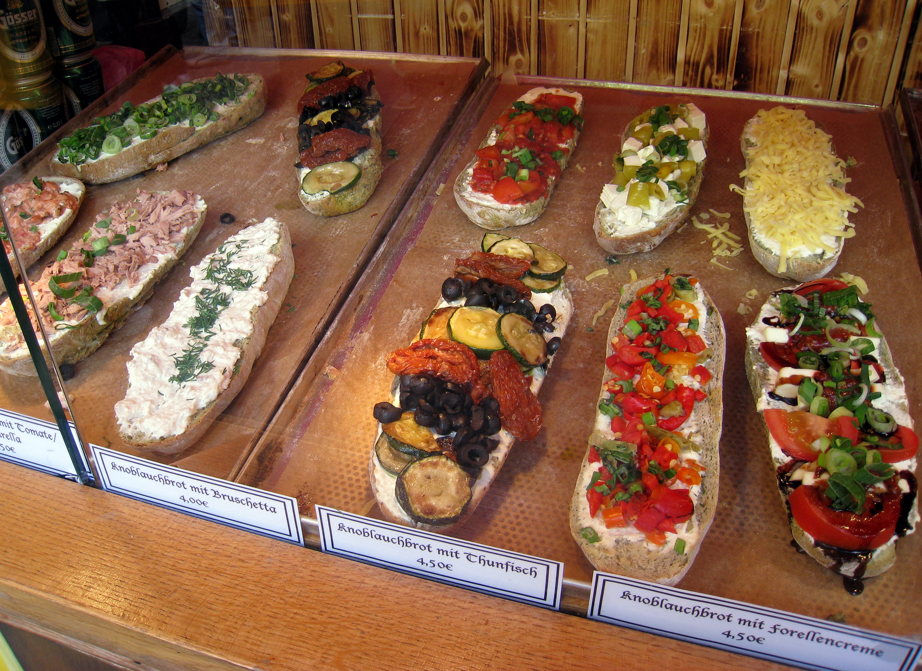 Innsbruck, Austria - Knoblauchbrot at the Easter Market.